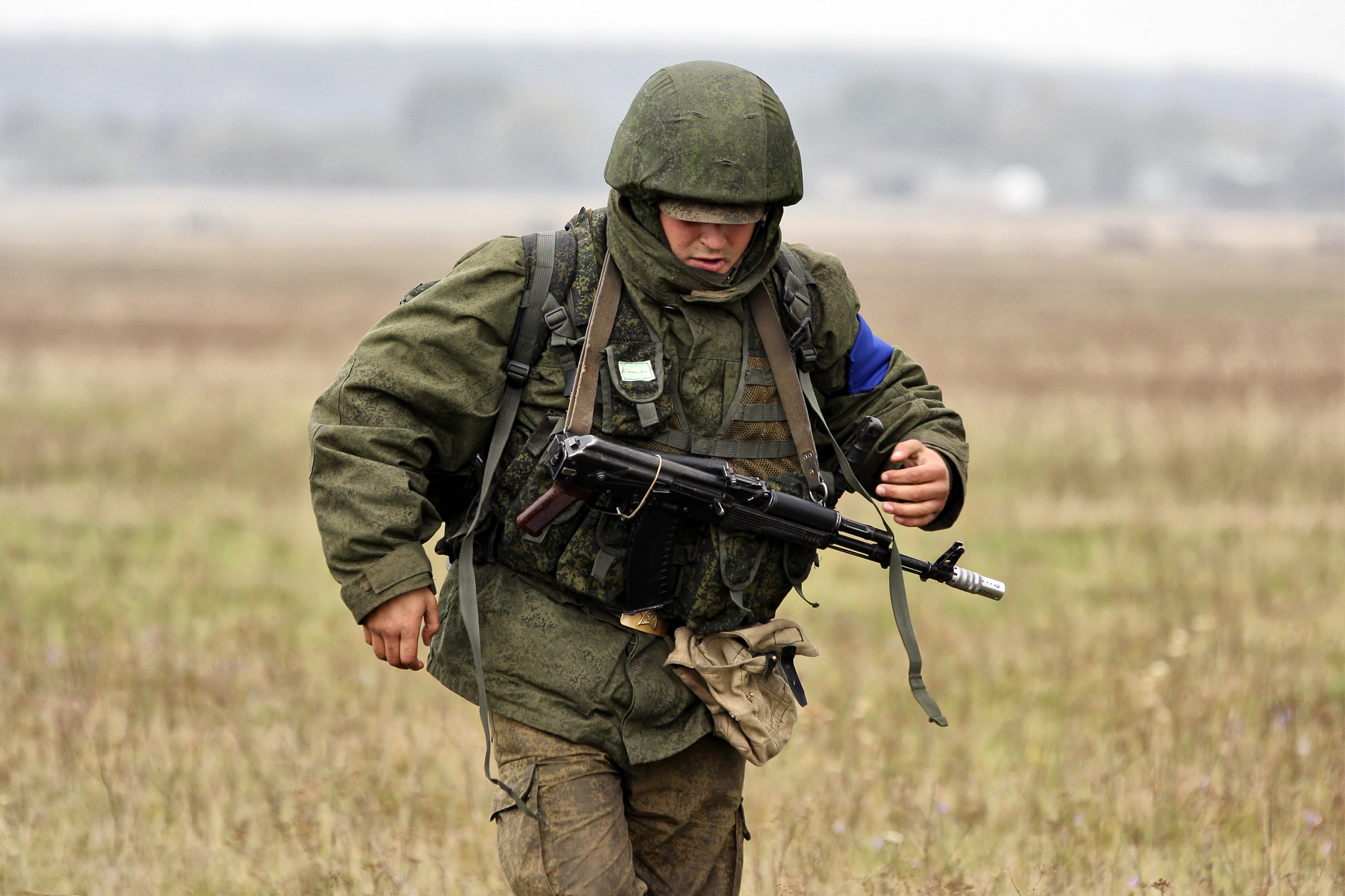 In combat situation, of course, the don't have a time for packing the parachutes